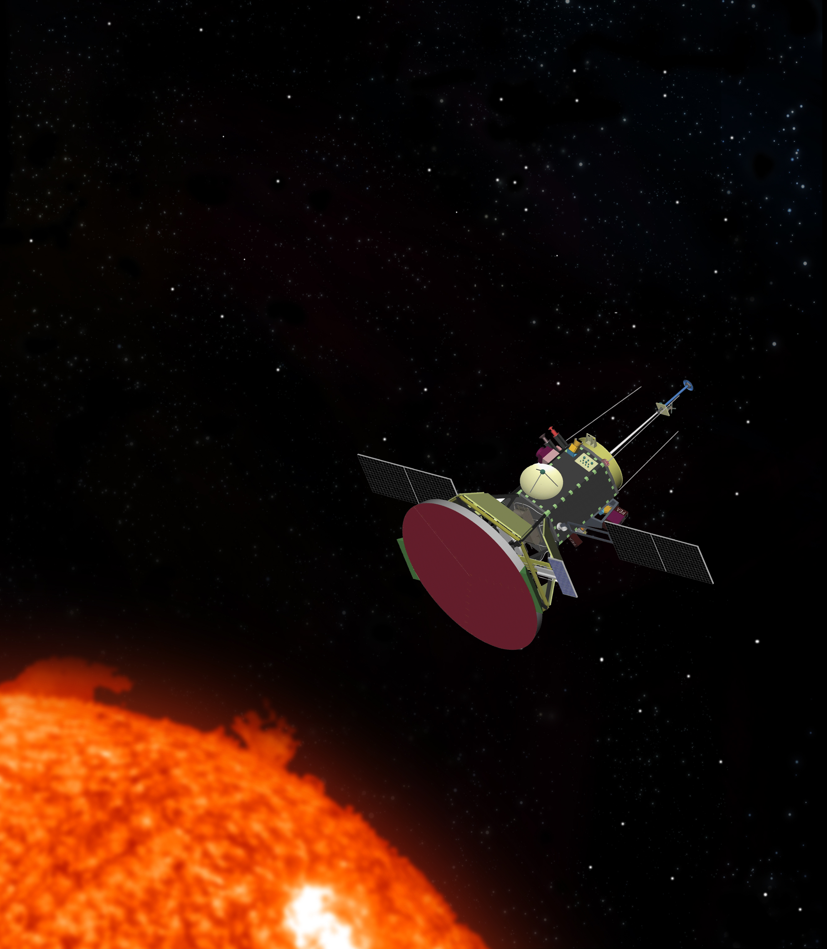 Artist's concept of NASA's Solar Probe spacecraft making its daring pass toward the sun, where it will study the forces that create solar wind. The Johns Hopkins University Applied Physics Laboratory in Laurel, Md., will design and build the spacecraft, on a schedule to launch in 2015. Preliminary designs include a 9-foot-diameter, 6-inch-thick, carbon-foam-filled solar shield atop the spacecraft body, and two sets of solar arrays that would retract or extend as the spacecraft swings toward or away from the sun -- making sure the panels stay at proper temperatures and power levels.